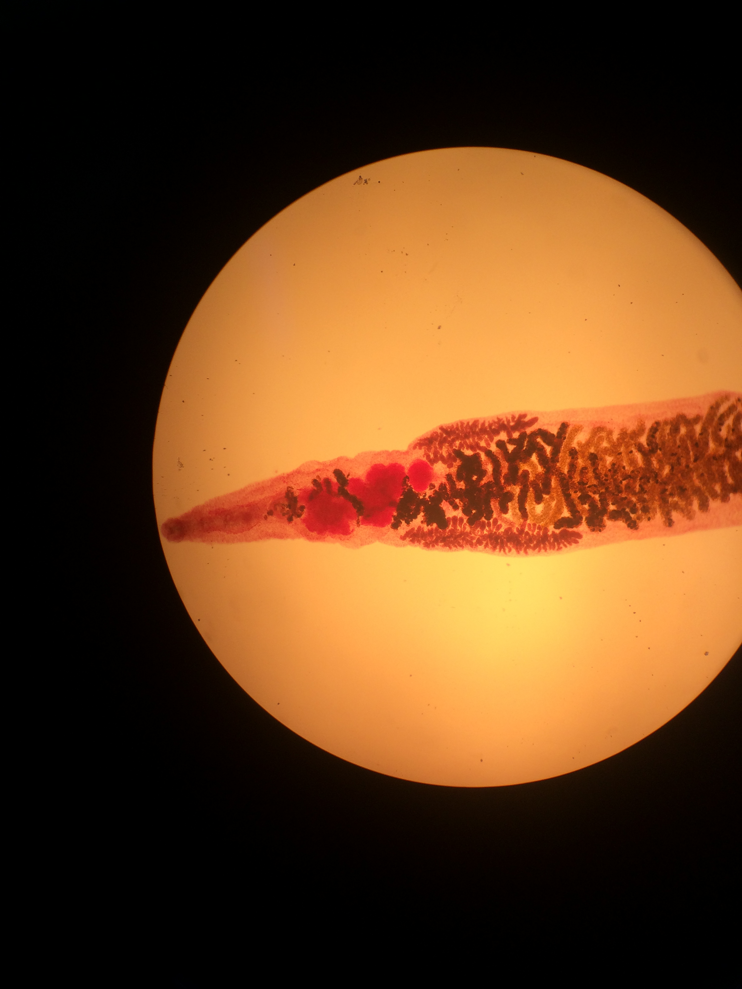 mature Dicrocoelium dendriticum under microscope in laboratory of Islamic Azad University of Arak.